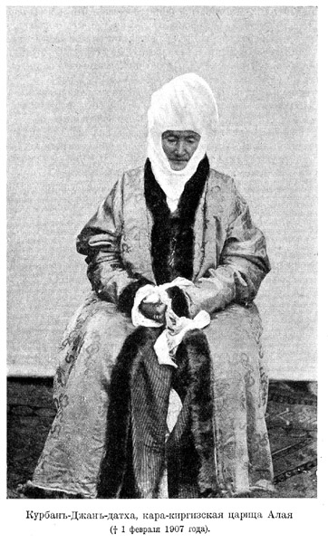 Kurmandjan Datca, the Kyrgyz military and government activities.